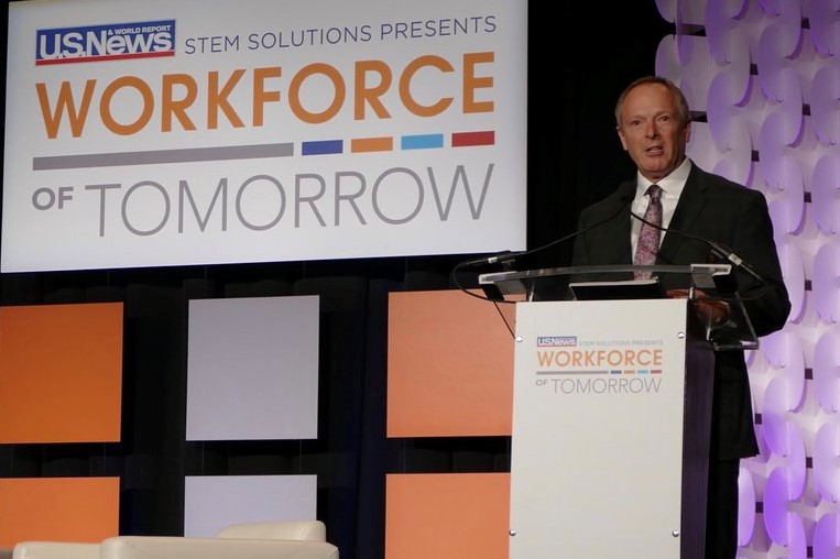 Jeff Weld keynote at US News STEM Solutions Summit 2017.